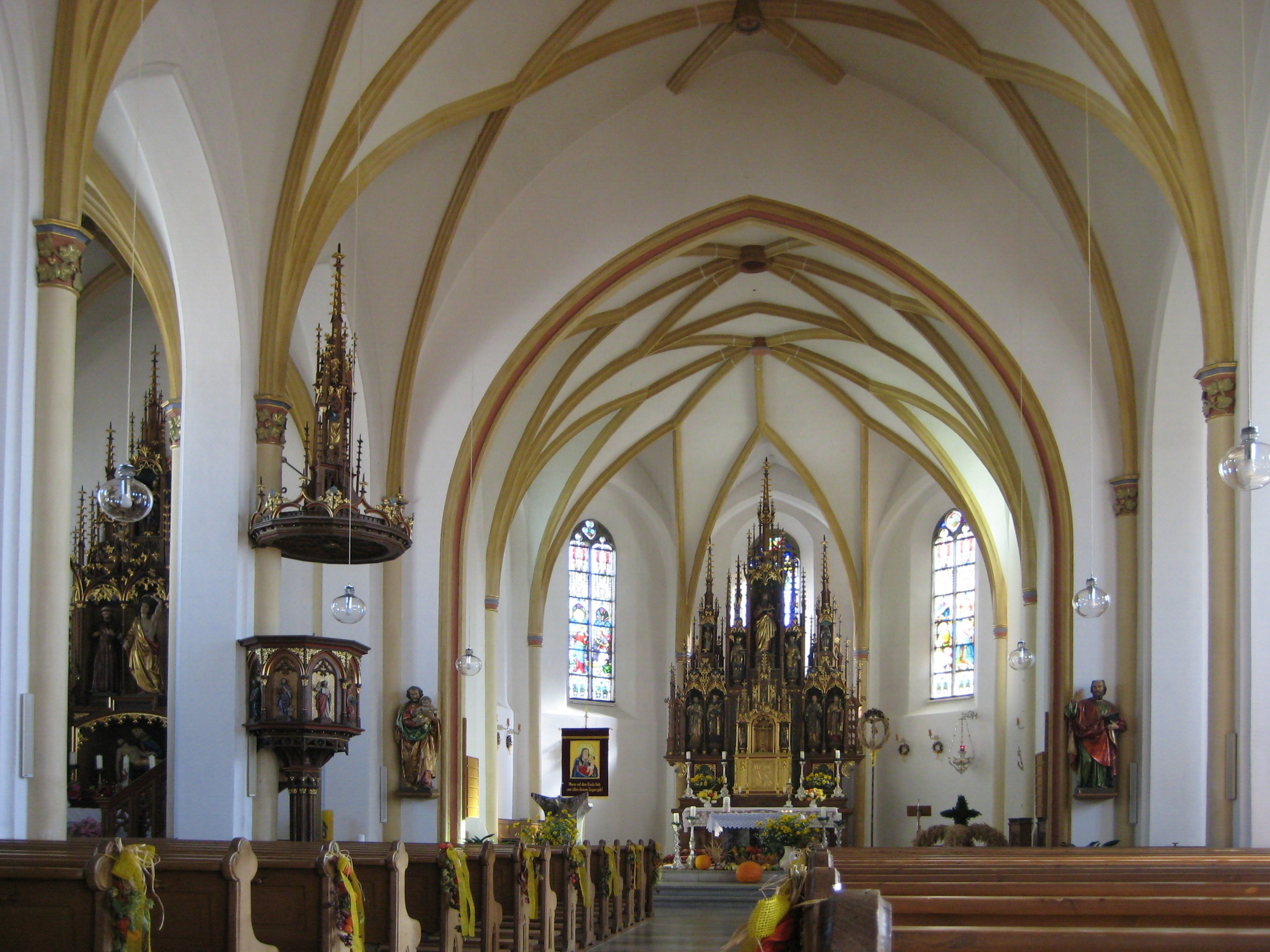 Perlesreut, interior view of St Andrew Parish Church from west.